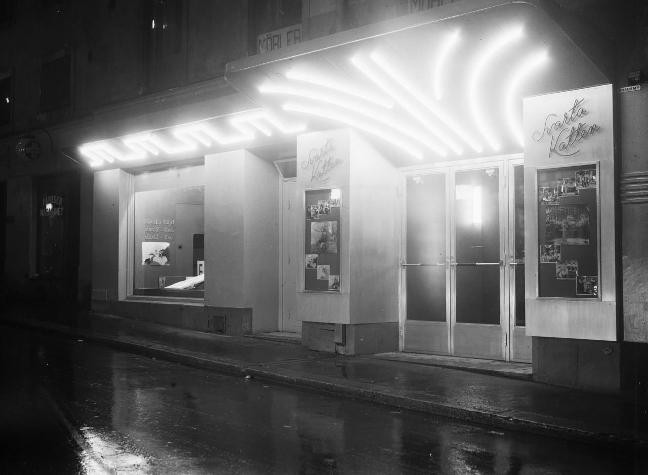 Biografen Svarta Katten påVattugatan 5. 1938-1938 FOTOGRAF: Okänd. Aftonbladet BILDNUMMER: AB 236 Stadsmuseet i Stockholm